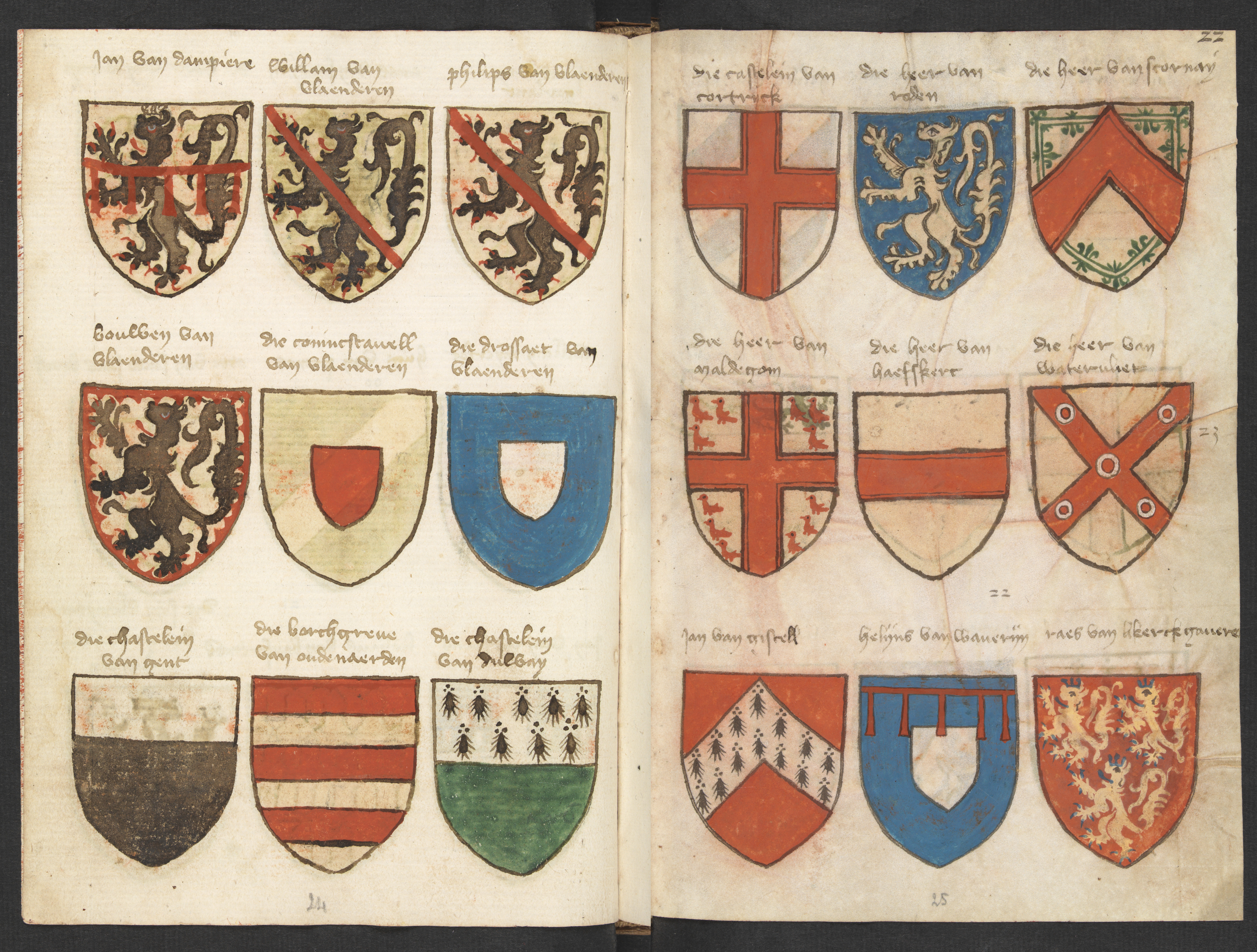 Lefthand side folio 021v; righthand side folio 022r from the Beyeren armorial / Wapenboek Beyeren